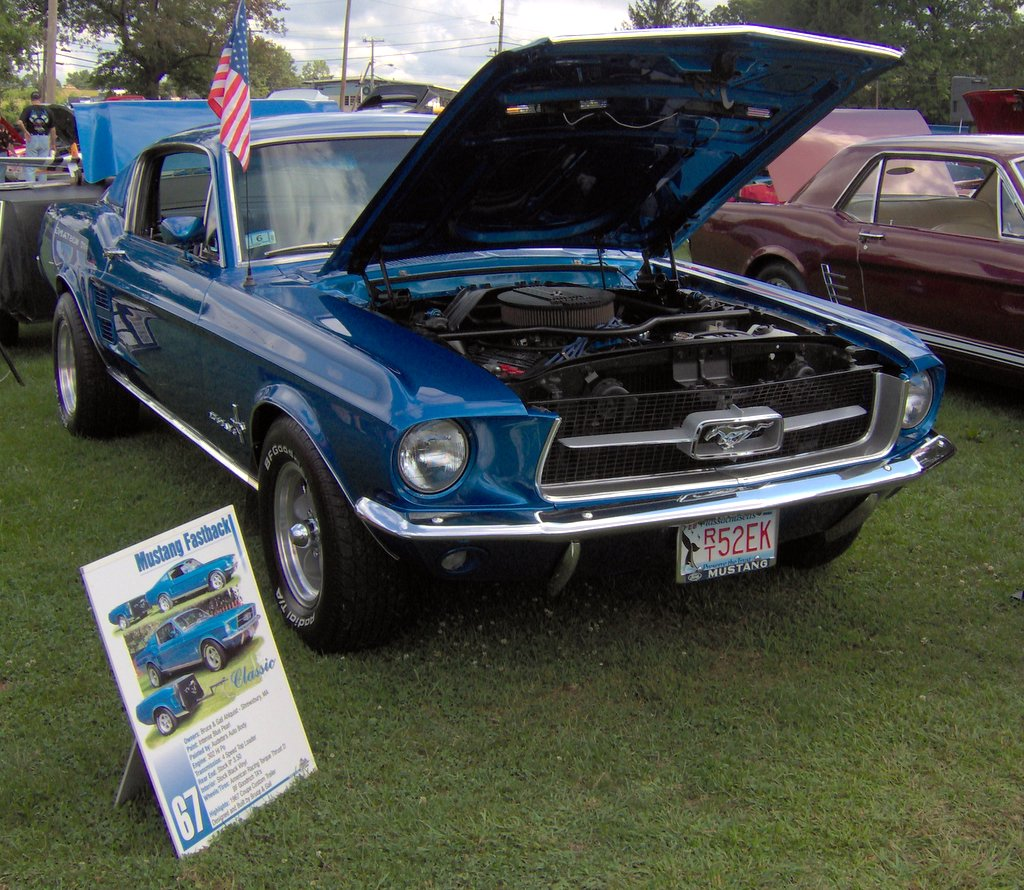 1967 Ford Mustang fastback